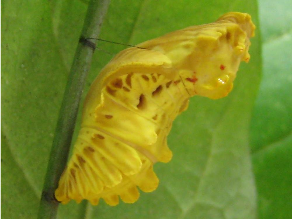 Atrophaneura alcinous chrysalis, Japan